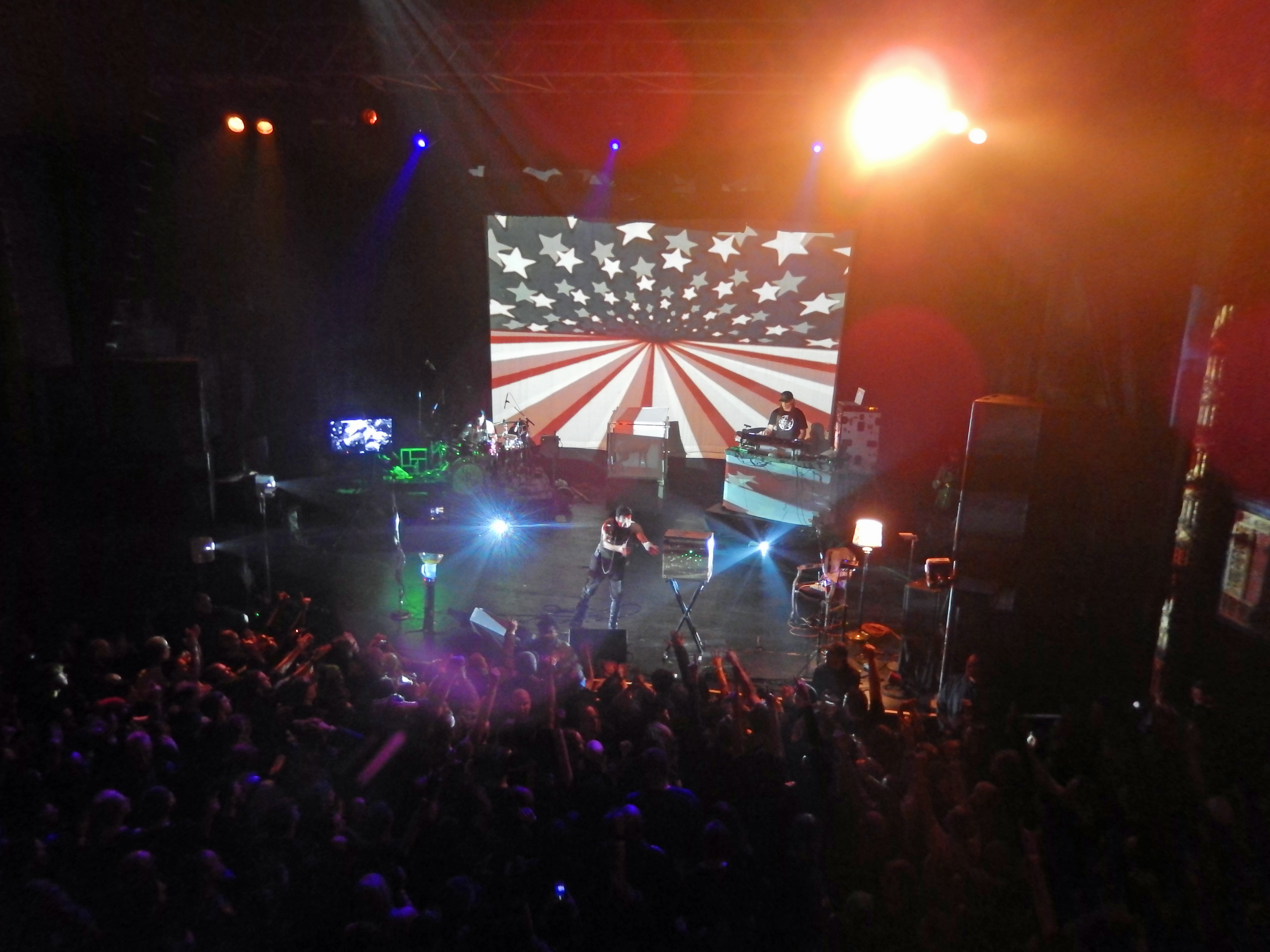 Skinny Puppy perform live at The Vic, 2014.